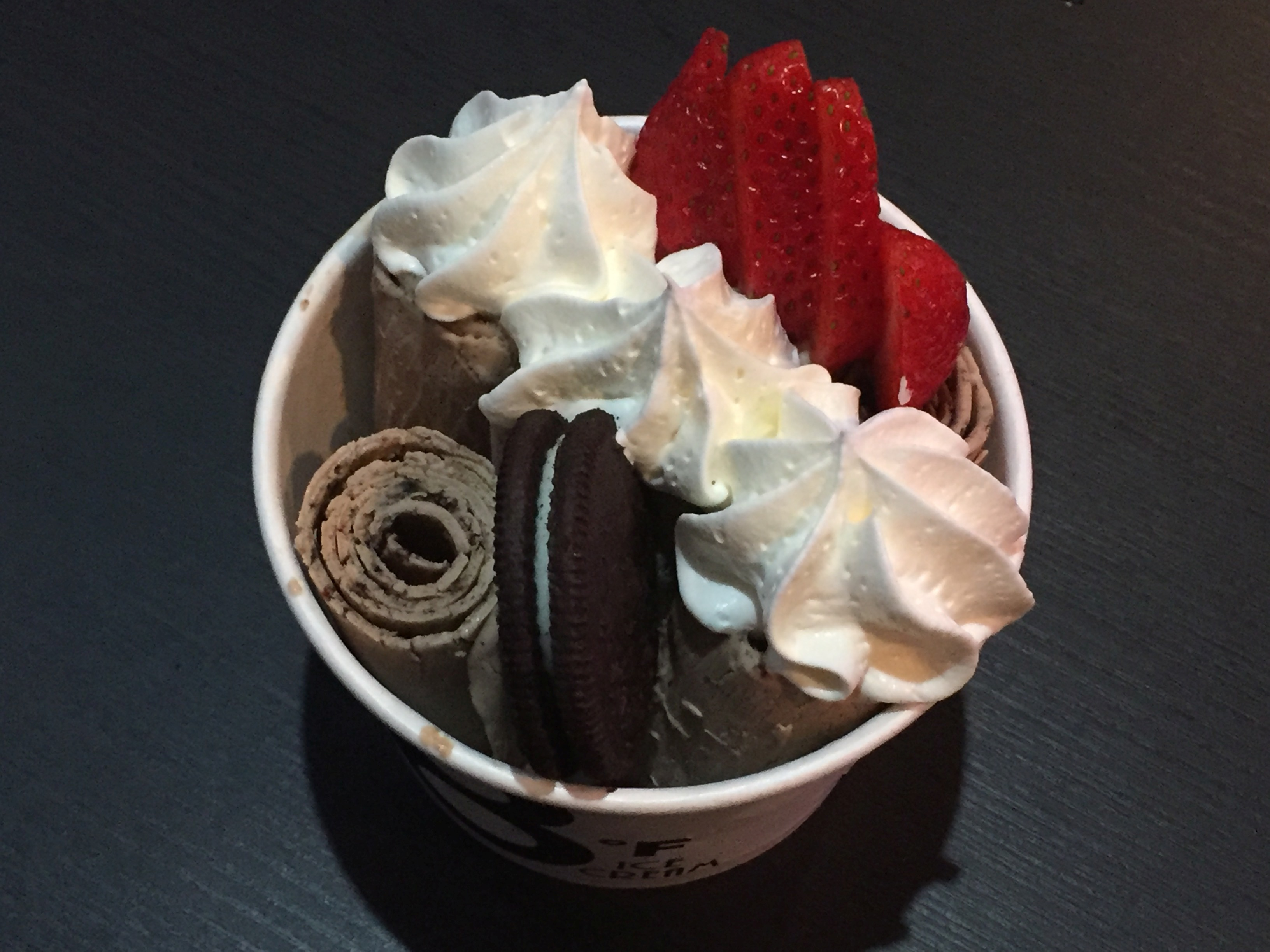 Stir-fried ice cream at a restaurant on Buford Highway, Georgia, September 2016